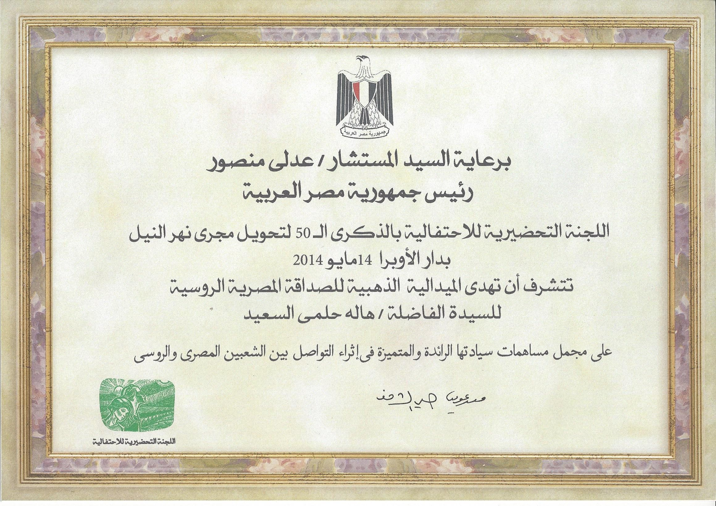 تكريم أ.د. هالة السعيد في احتفالية الذكرى الـ50 لتحويل مجرى نهر النيل